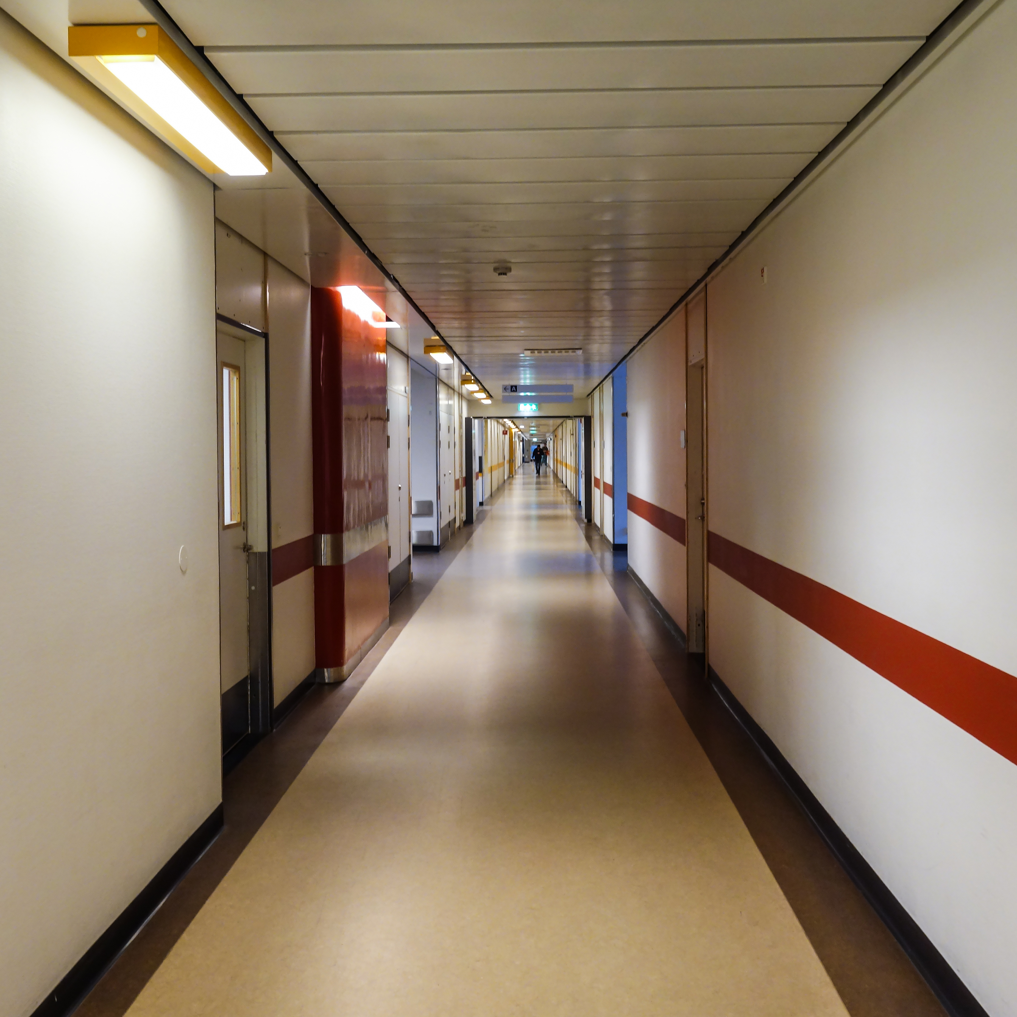 Corridor on the second level in Norra Älvsborgs Länssjukhus (Northern Älvsborg county hospital) - NÄL, Trollhättan, Sweden.